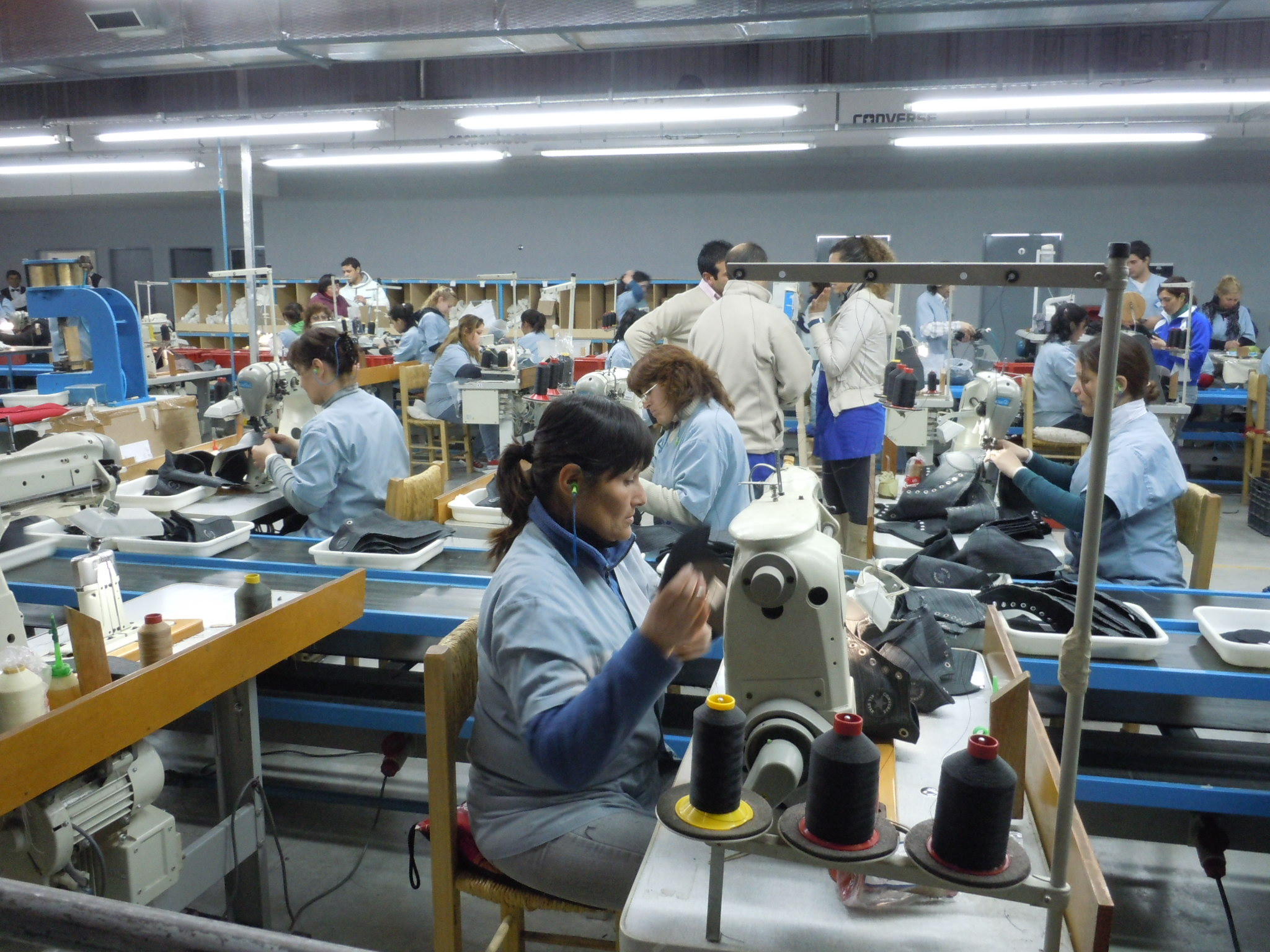 Sportshoes factory ownned by Coopershoes, in Las Flores, Provincia de Buenos Aires, Argentina. During visit of president Cristina Kirchner and ANSES director, Diego Bossio